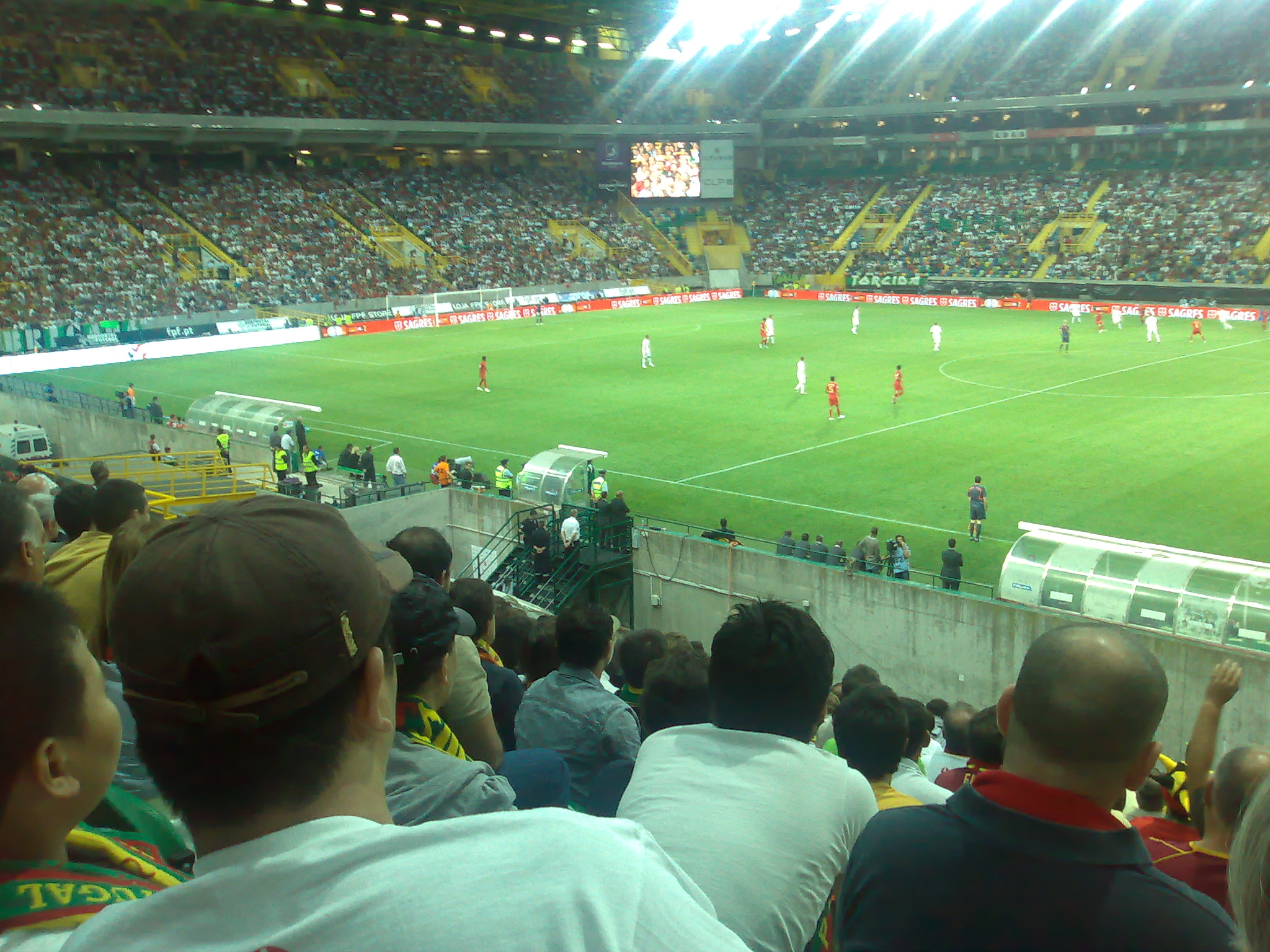 Alvalade XXI Stadium, Lisbon, Portugal